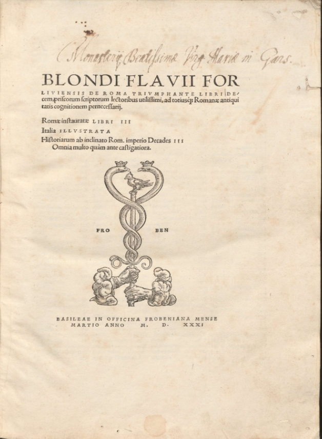 Blondus Flavius, Roma triumphans and other works, Basel 1531, title page